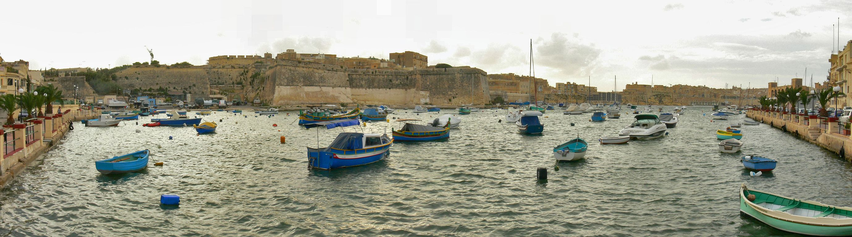 Panoramic view of Kalkara Creek and Birgu (Citta Vittoriosa), Malta